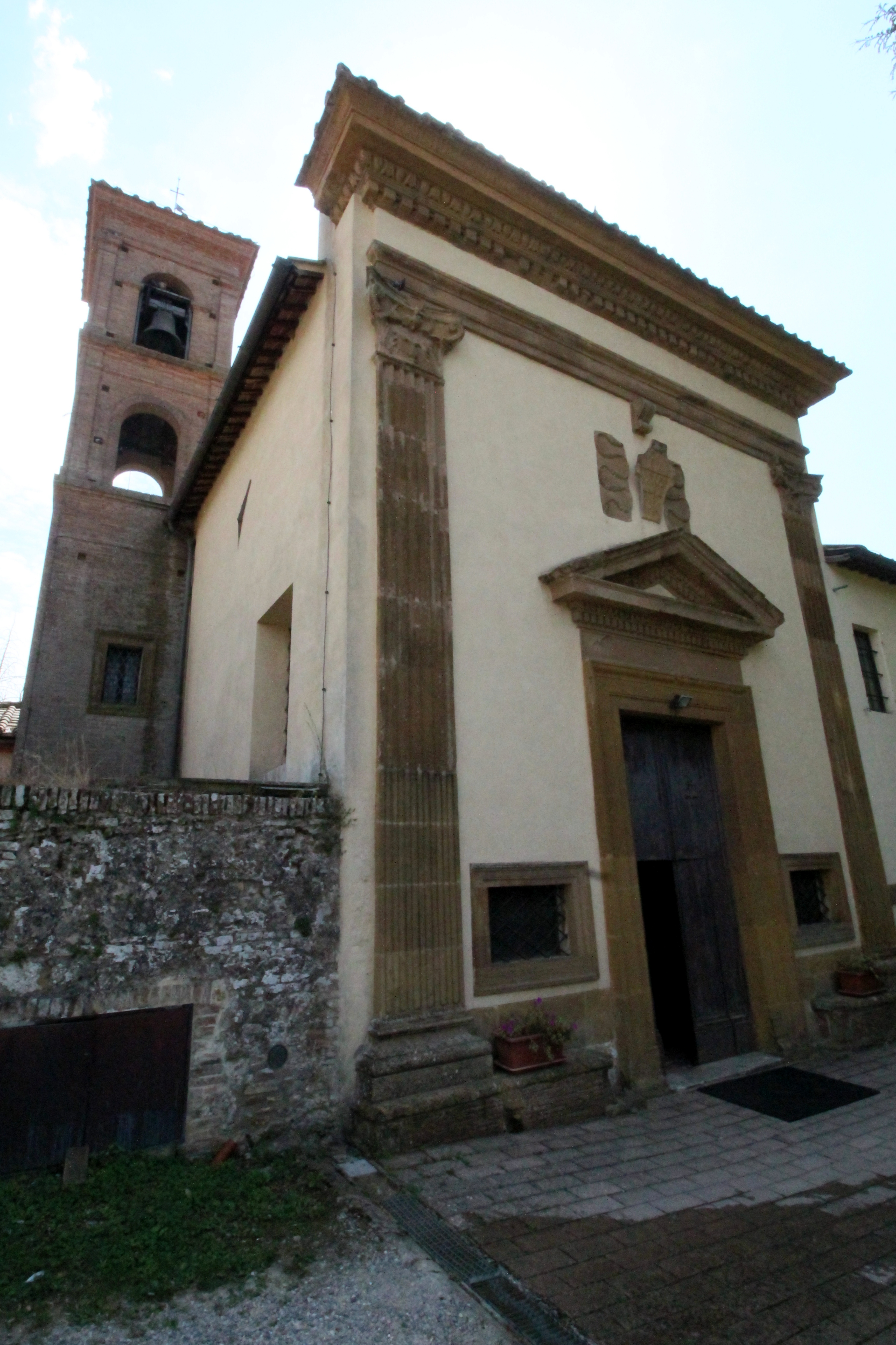 Church San Bartolomeo alle Volte Alte, 14th Century, Volte Alte, hamlet of Siena, Province of Siena, Tuscany, Italy